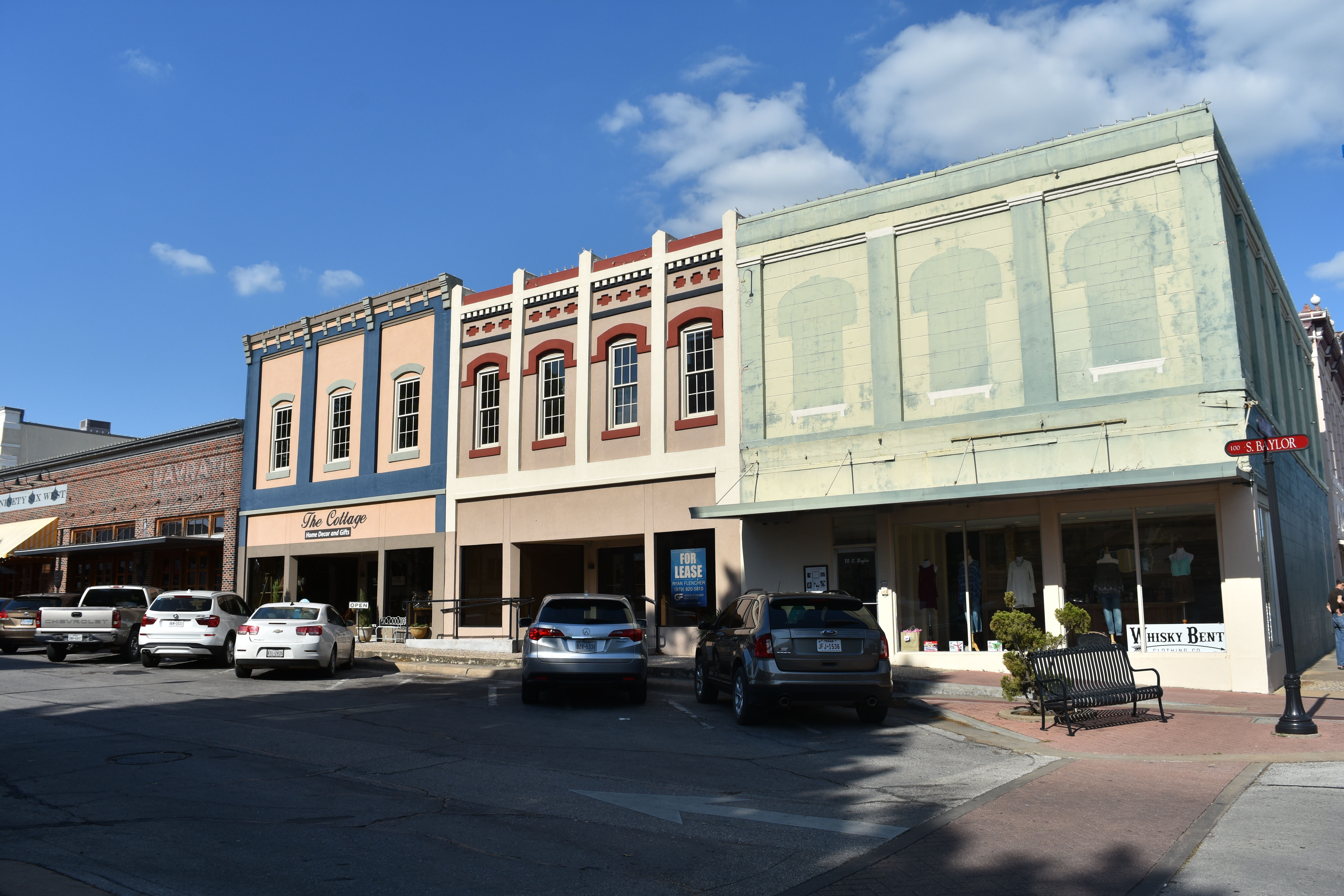 Houses in Downtown Historic District Brenham, Texas, USA